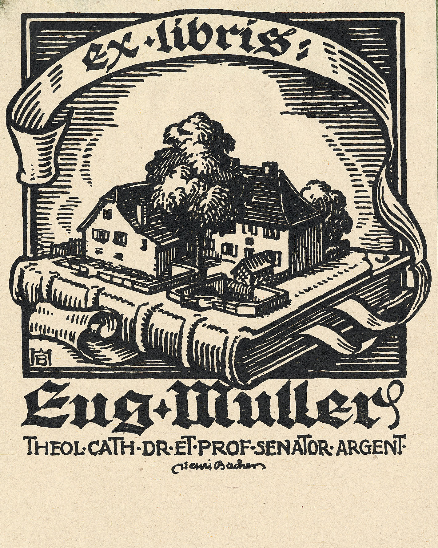 Ex libris Eugène Müller Theol. Cath. Dr. et Prof Senator Argent